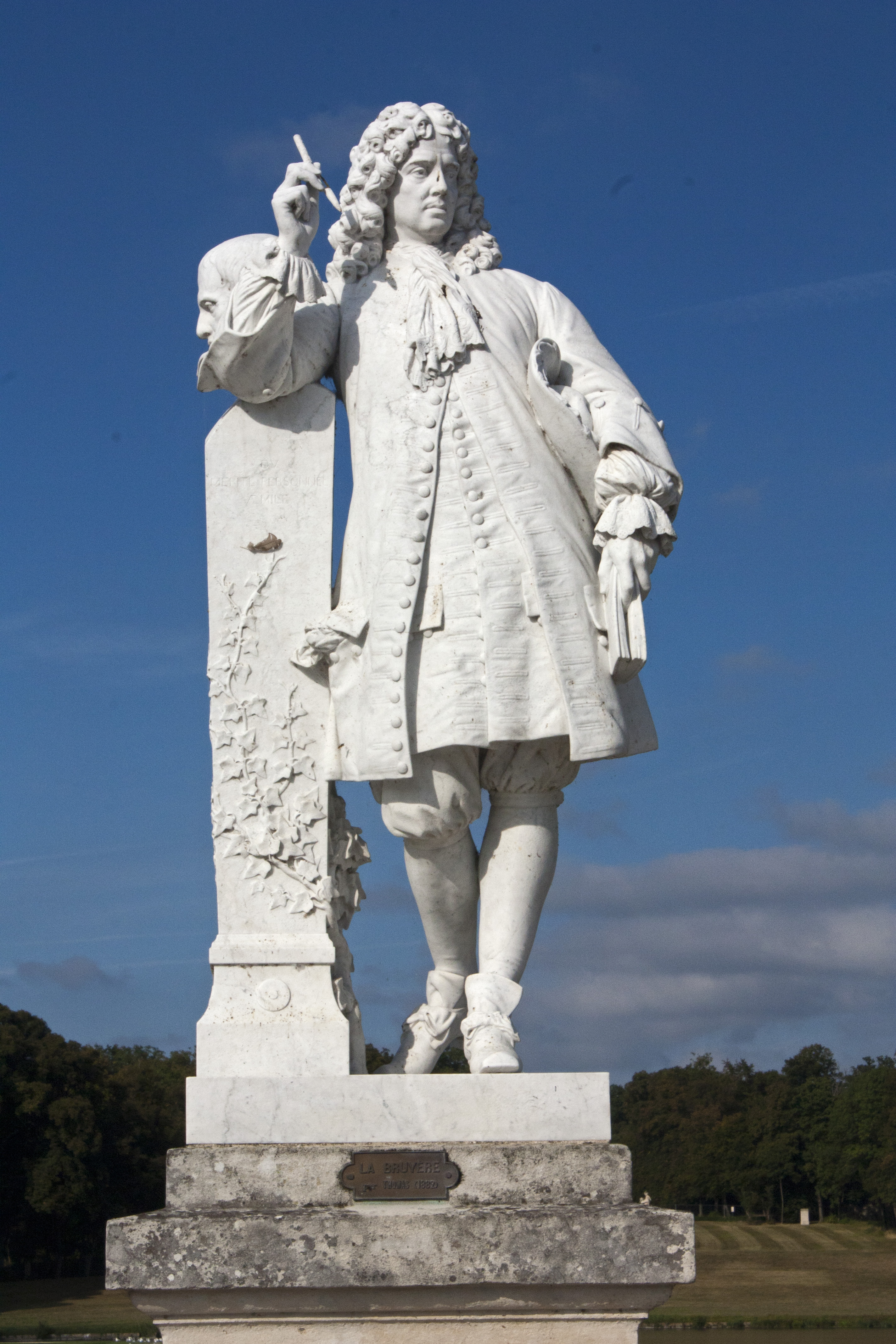 La Bruyère by Thomas (1882).